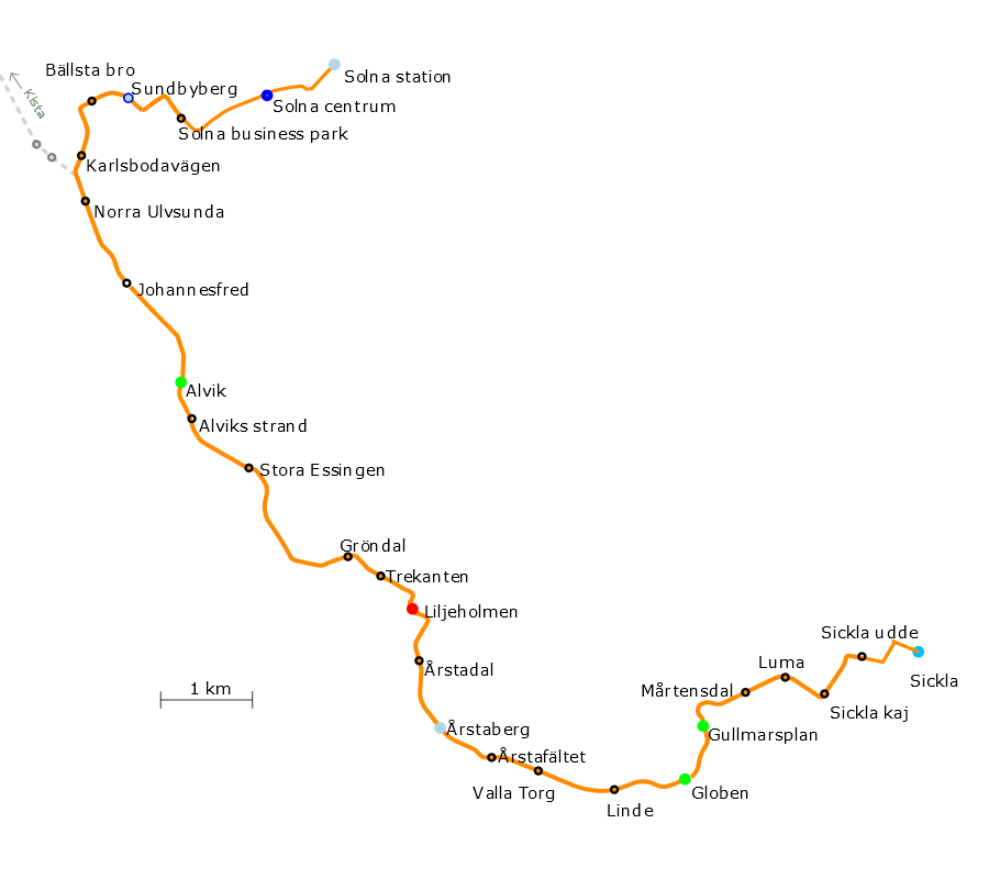 Geographically accurate map of Tvärbanan as of 2017